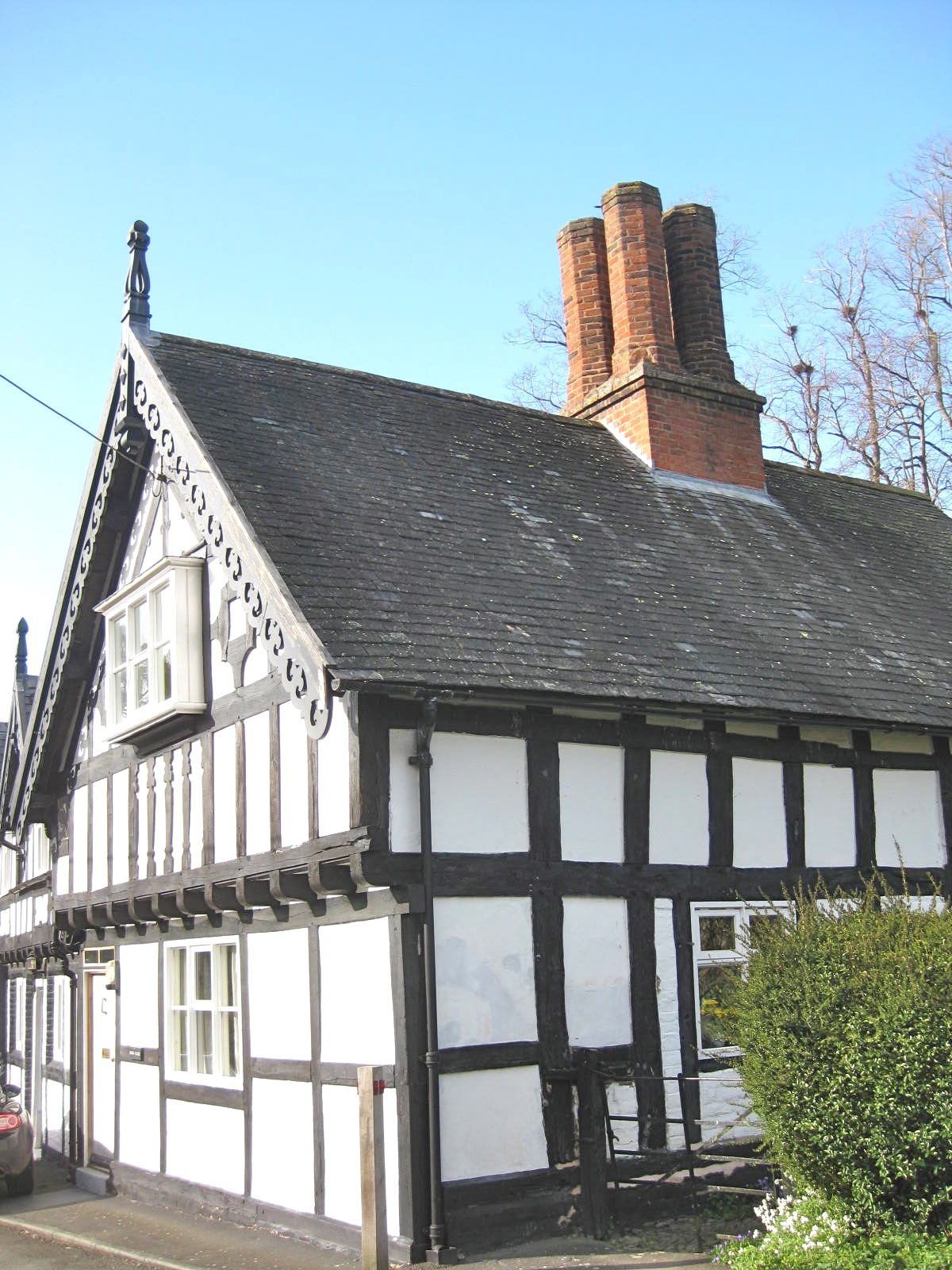 Berriew, Montgomeryshire. Church Terrace